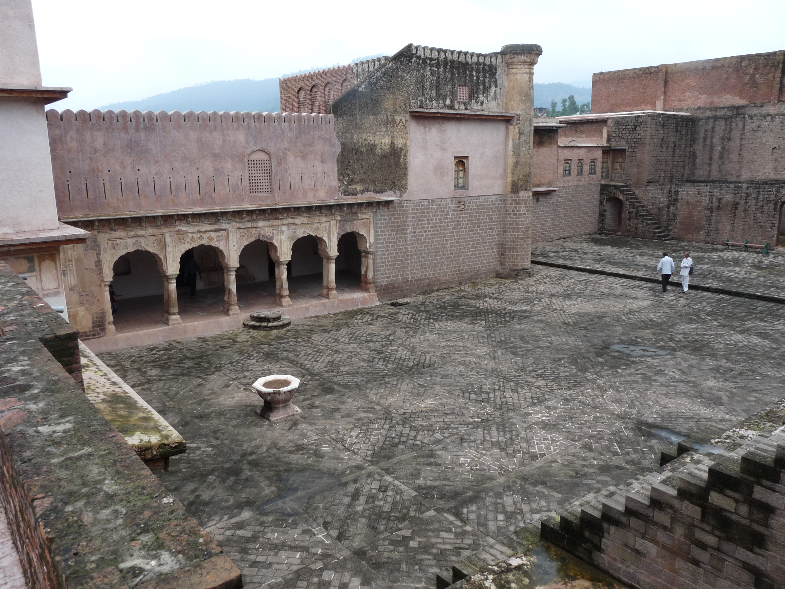 A view of the ancient palace in Ramnagar, Udhampur District, J&K state, India